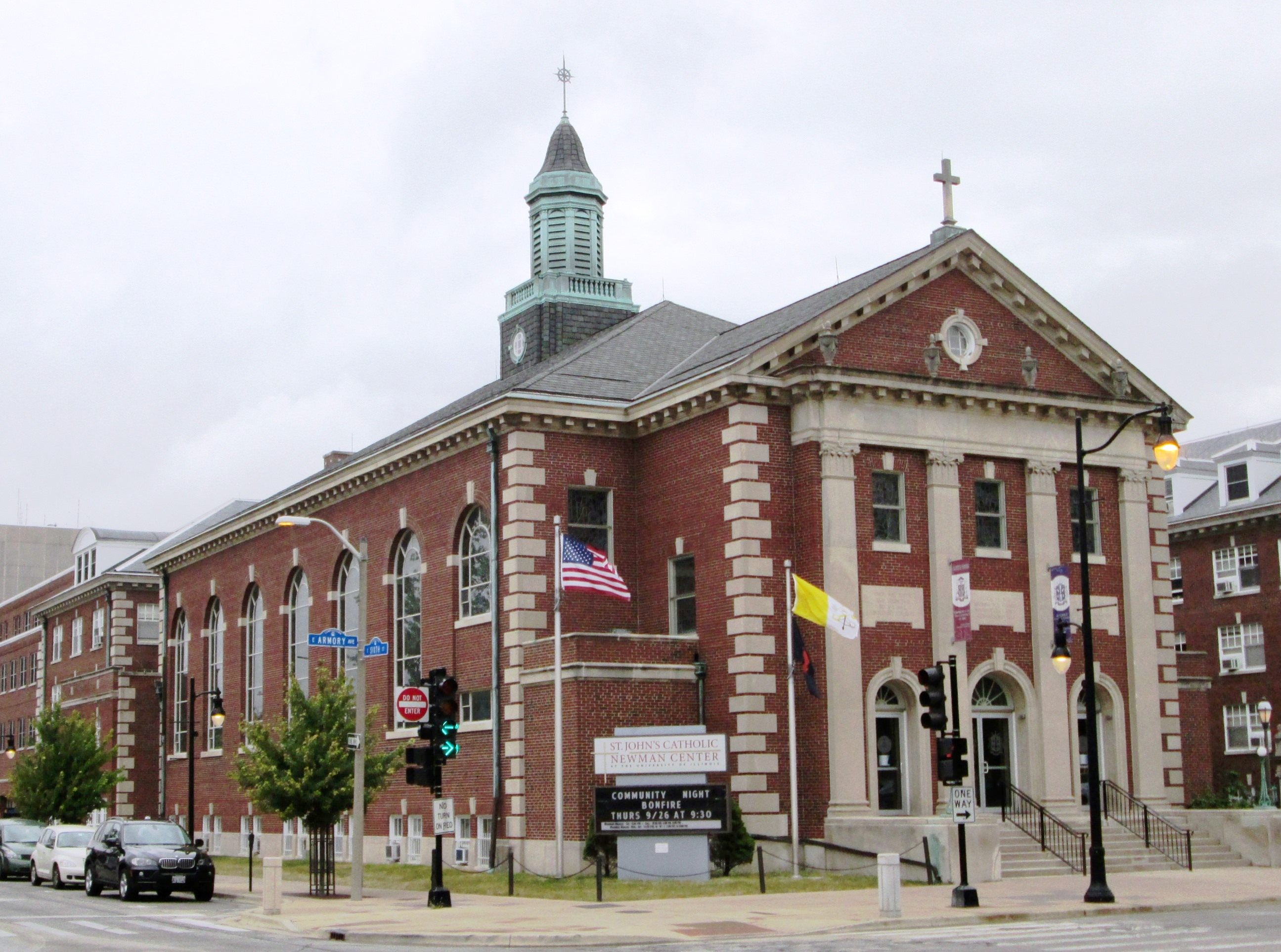 St. John's Catholic Newman Center at the University of Illinois at Urbana-Champaign at 604 East Armory Avenue in Champaign, Urbana. The complex, consisting of St. John's Catholic Chapel and Newman Hall, a 300-bed residence, was built in 1926-28 at the cost of $750,000, only the third Newman Center in the U.S. The complex was added to in 2006, with a new wing increasing the capacity of Newman Hall to 600, and other amenities; as part of the $40 million project the original complex was renovated as well.